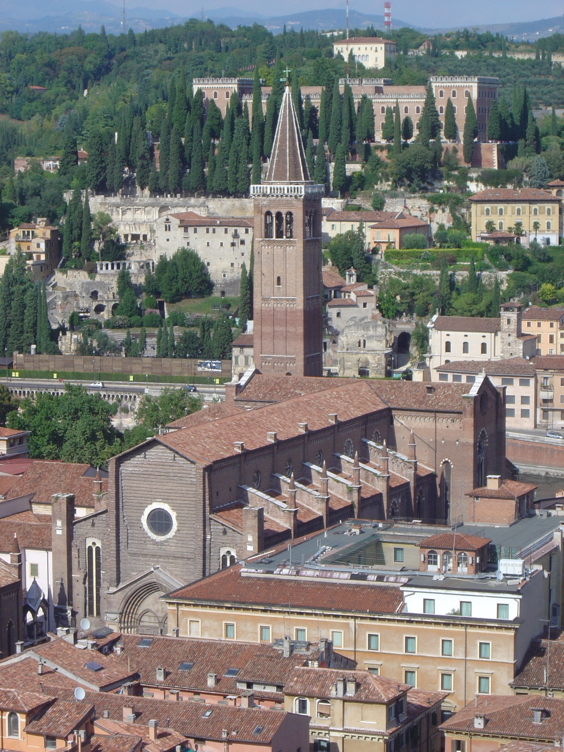 Verona, view from the Torre dei Lamberti